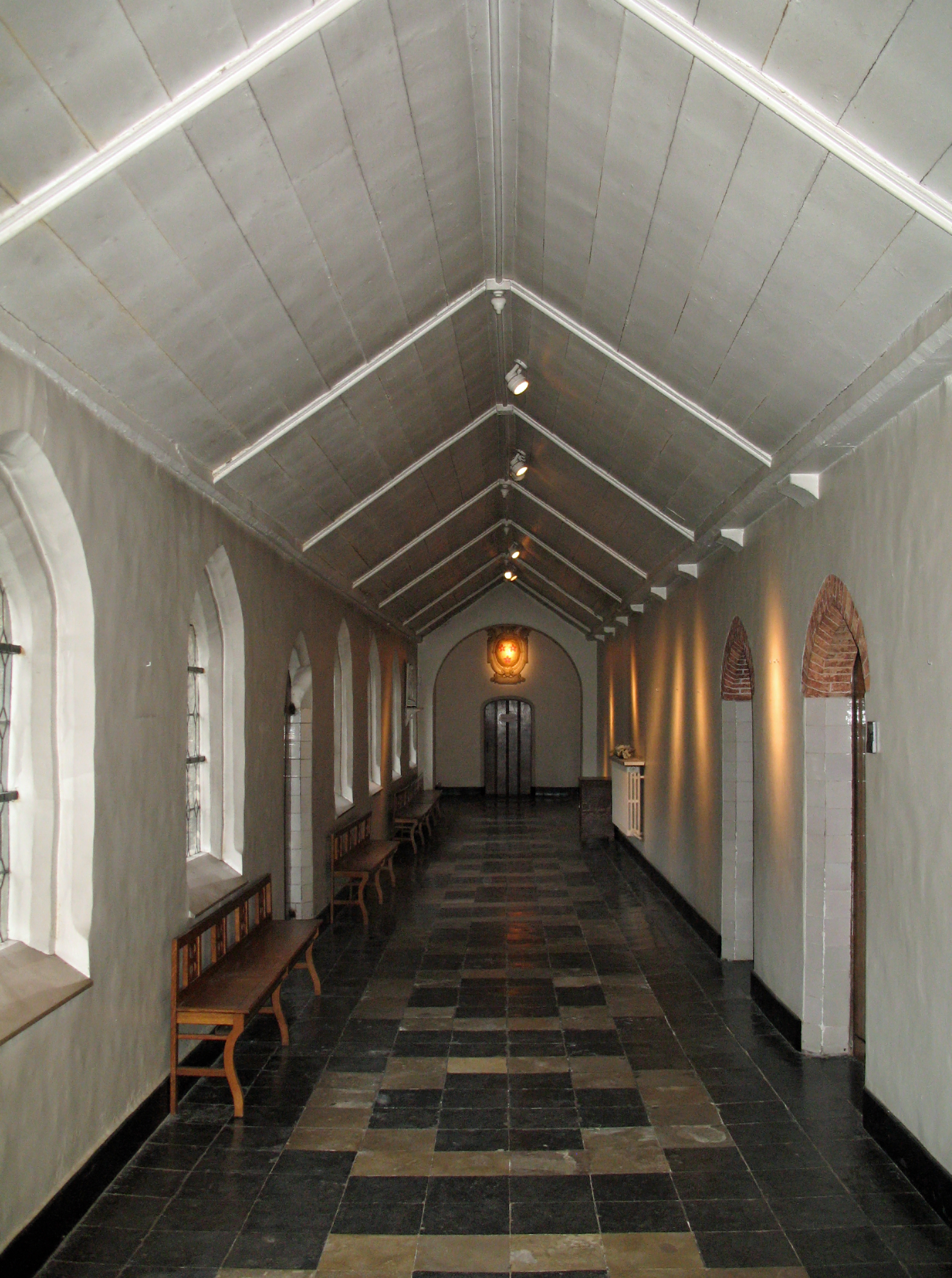 Bruges (Belgium): interior of St Godelieve monastery - cloisters